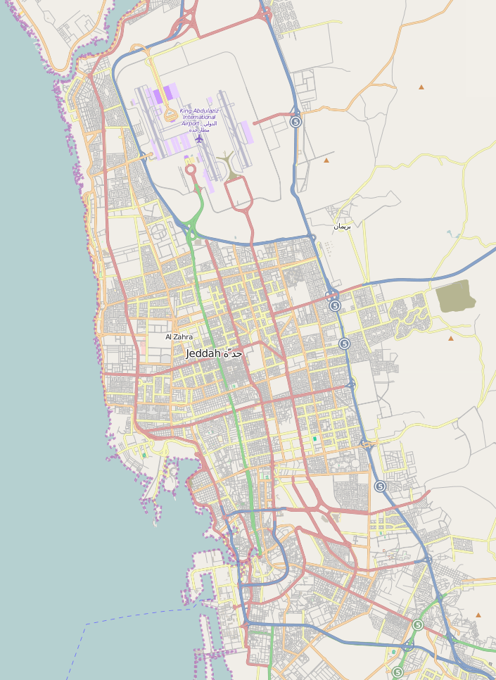 A map showing the main street of Jeddah, Saudi Arabia, with King Abdulaziz International Airport at the top. The two highways to Mecca (80 km) leave the map at the lower right-hand corner.